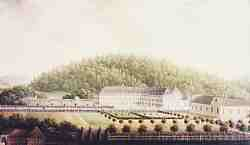 A painting of the Moravian community at Marienborn, home to the family of Nicholas and Erdmuthe von Zinzendorf during the late 1740s.